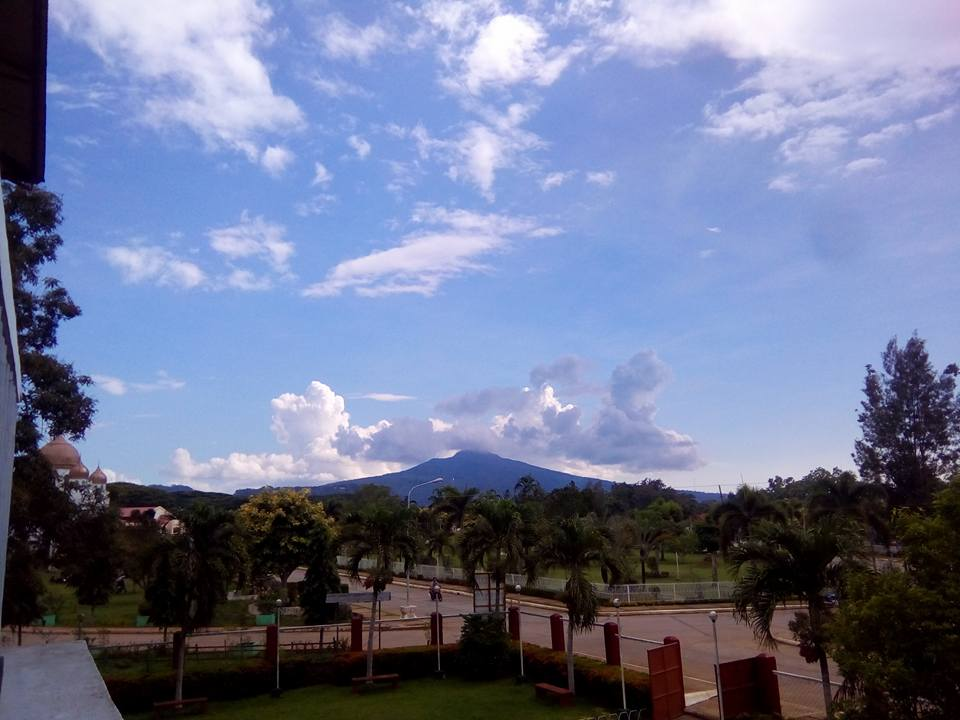 cinder cone volacano in the province of Jolo, Sulu